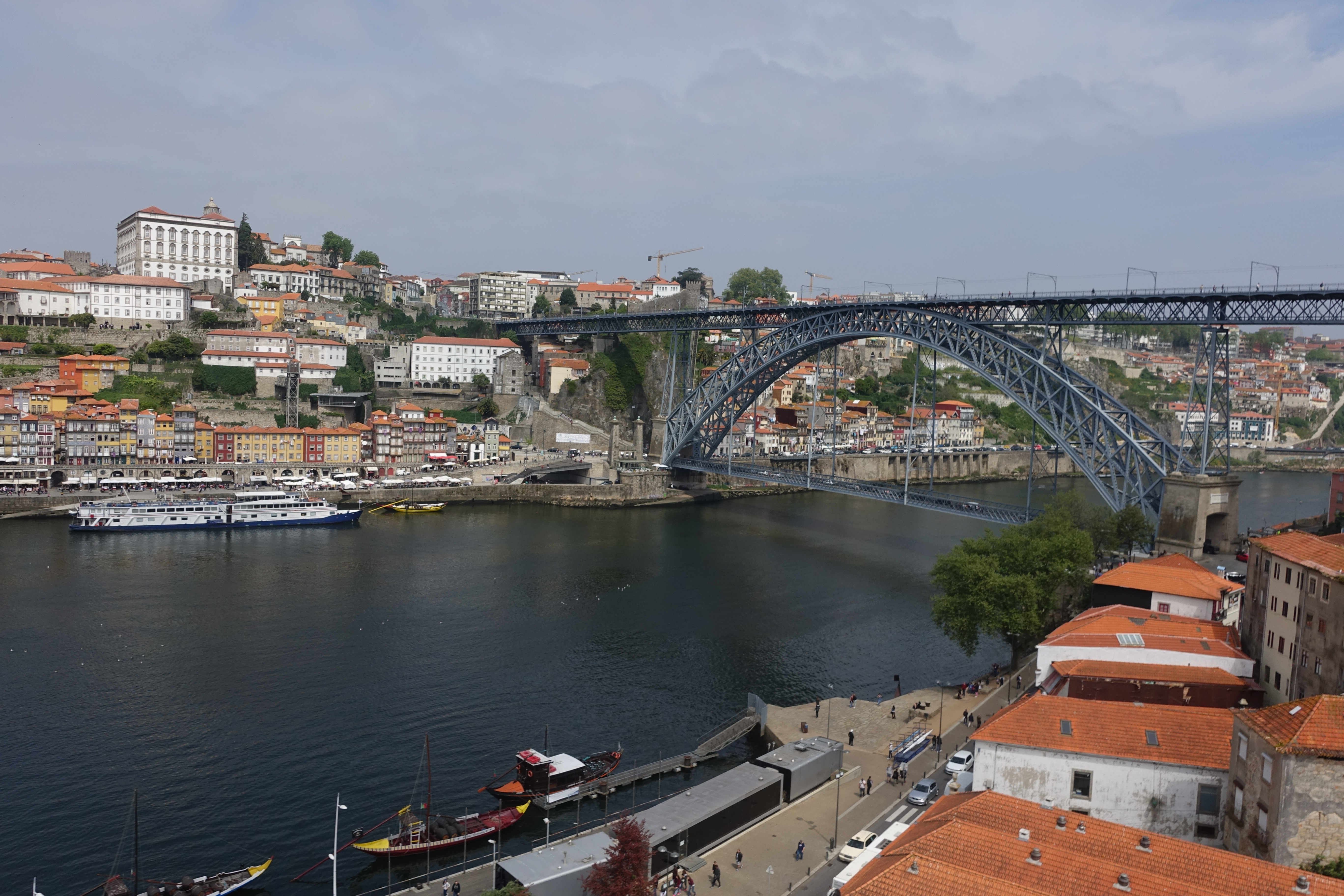 Dom Luis I Bridge in 2017, Porto, Portugal.